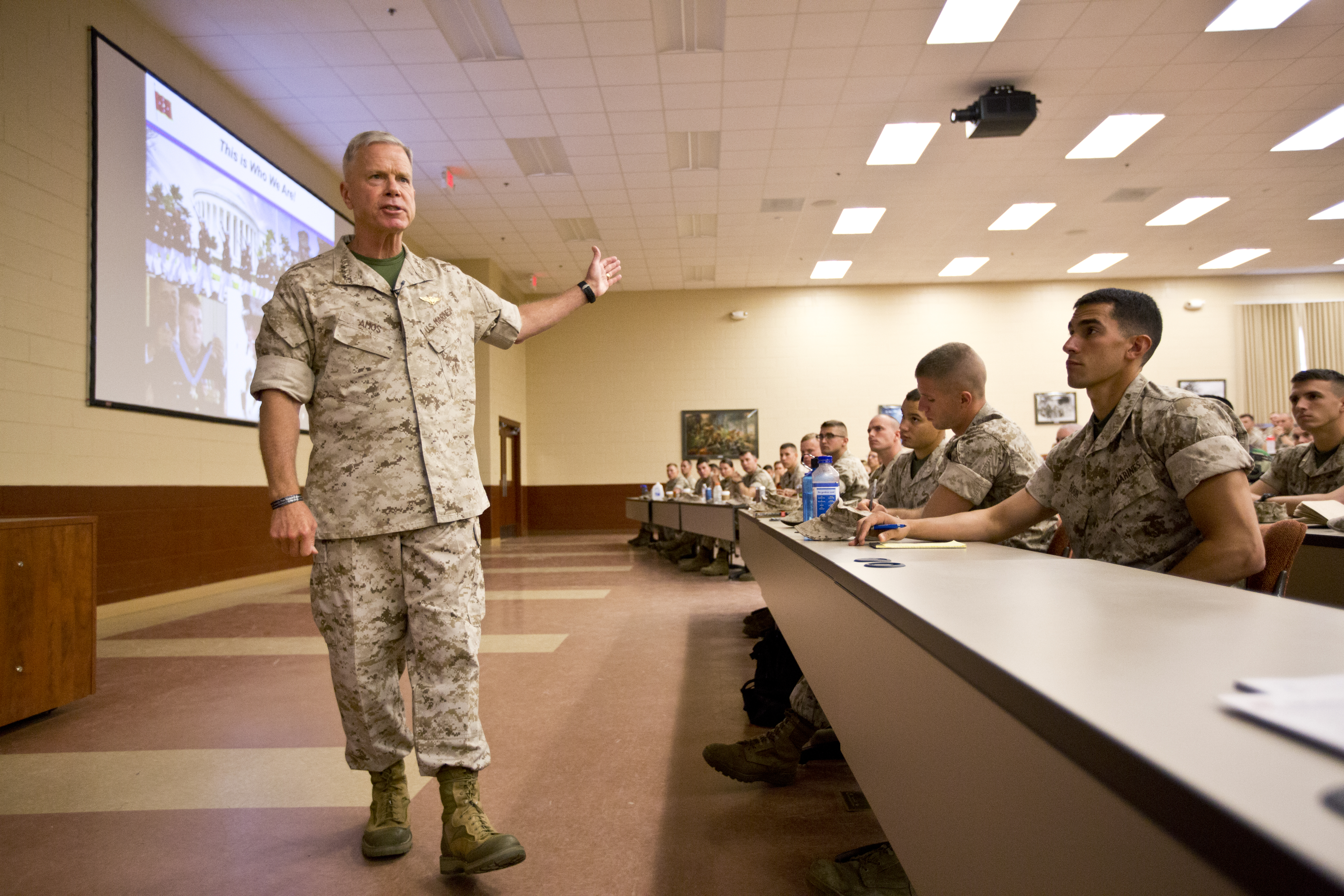 Quantico, VA - Commandant of the U.S. Marine Corps, Gen. James F. Amos, speaks to Marines with charlie company (C CO), The Basic School (TBS), at Quantico, Va., Aug. 27, 2014. Amos visited TBS to address C CO students before graduation. (U.S. Marine Corps photo by Sgt. Gabriela Garcia/Released)